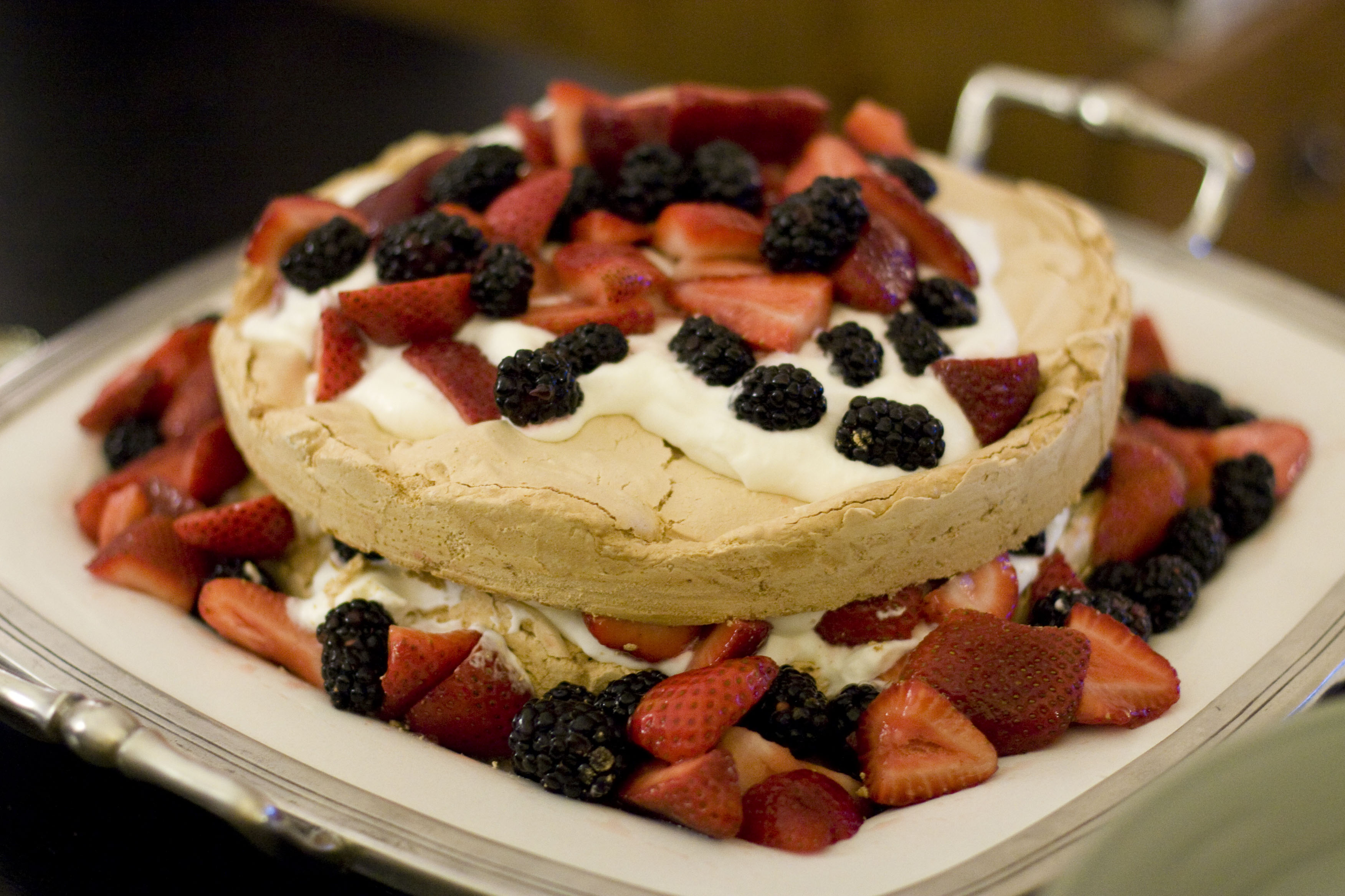 A photo of a Pavlova. Uploaded from Flickr.